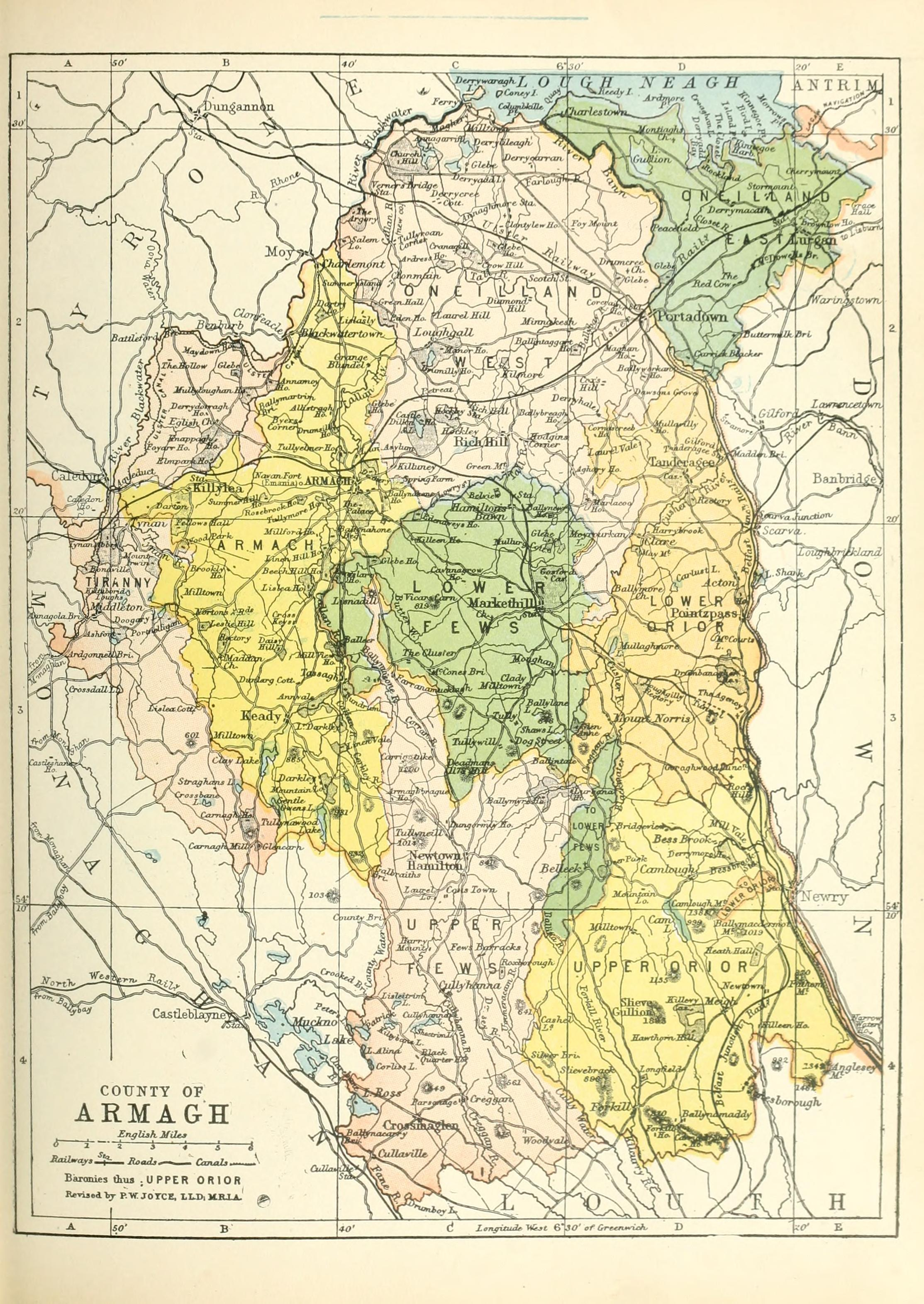 Map of the baronies of County Armagh in Ireland; taken from Atlas and cyclopedia of Ireland, p.36